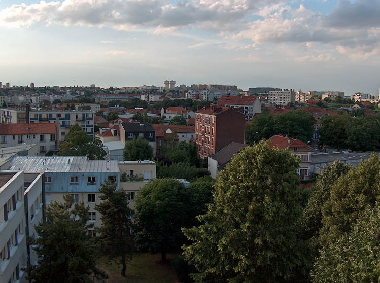 Cityscape of Montreuil, Seine-Saint-Denis, a suburb of Paris, France, with a remote view of the twin water towers of Romainville.